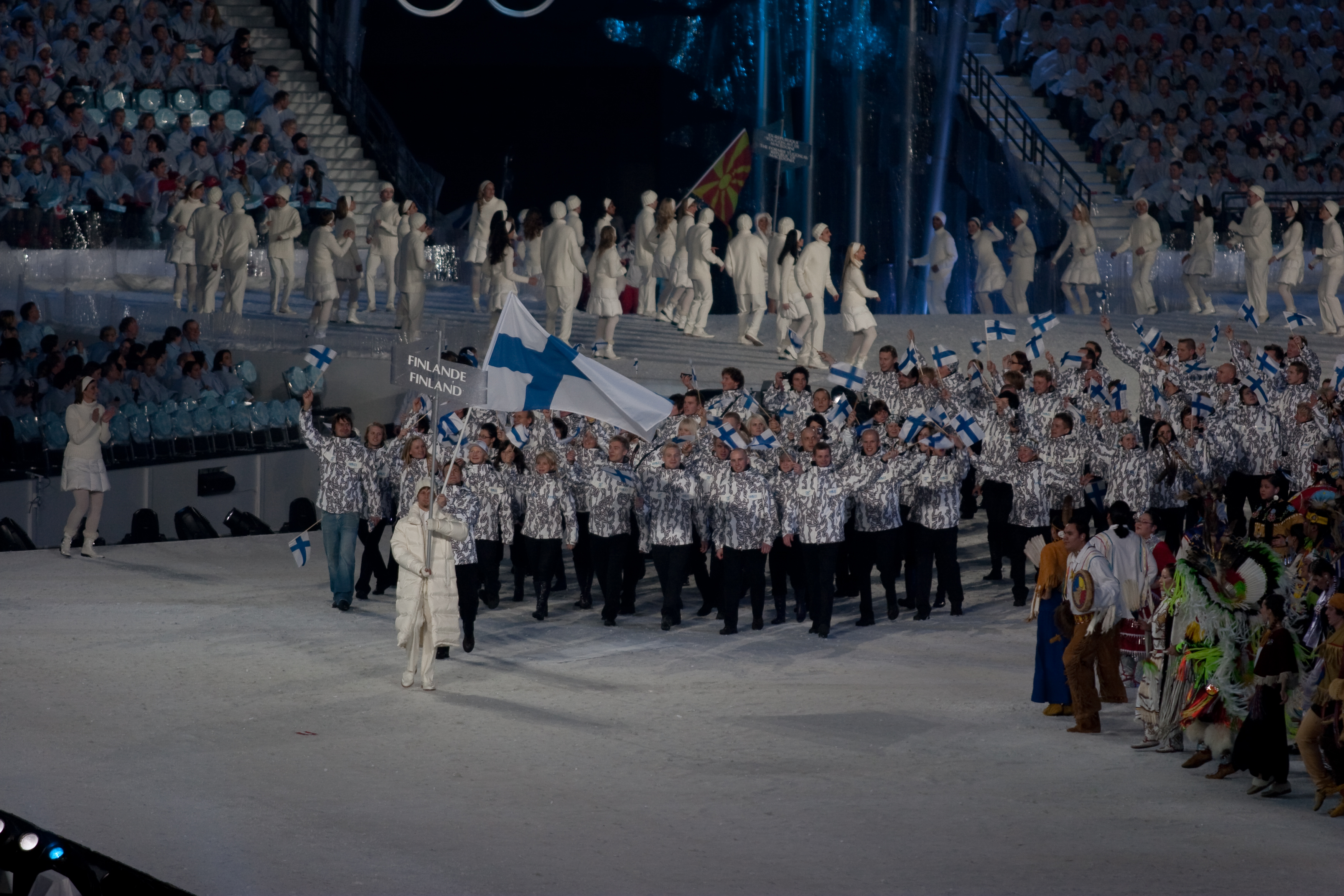 The athletes from Finland entering the stadium at the opening ceremonies of the 2010 Winter Olympics